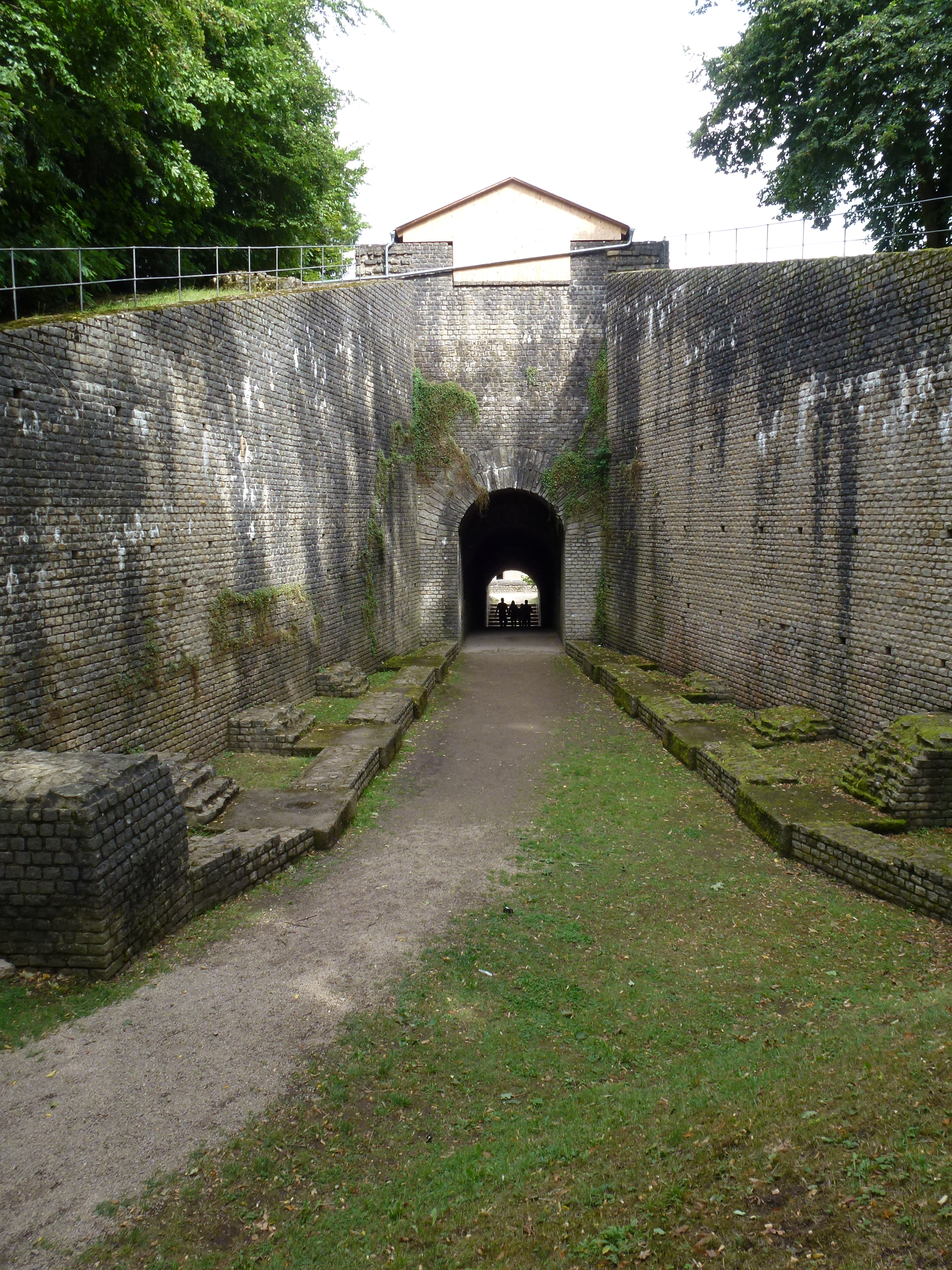 A vomitorium at the Roman amphitheatre in Trier